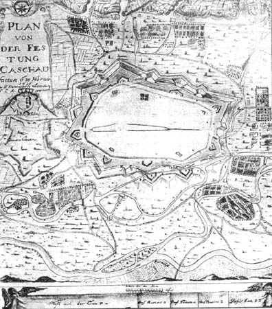 Plan of Košice of Kleinwachter de Wachtenberg, 1715